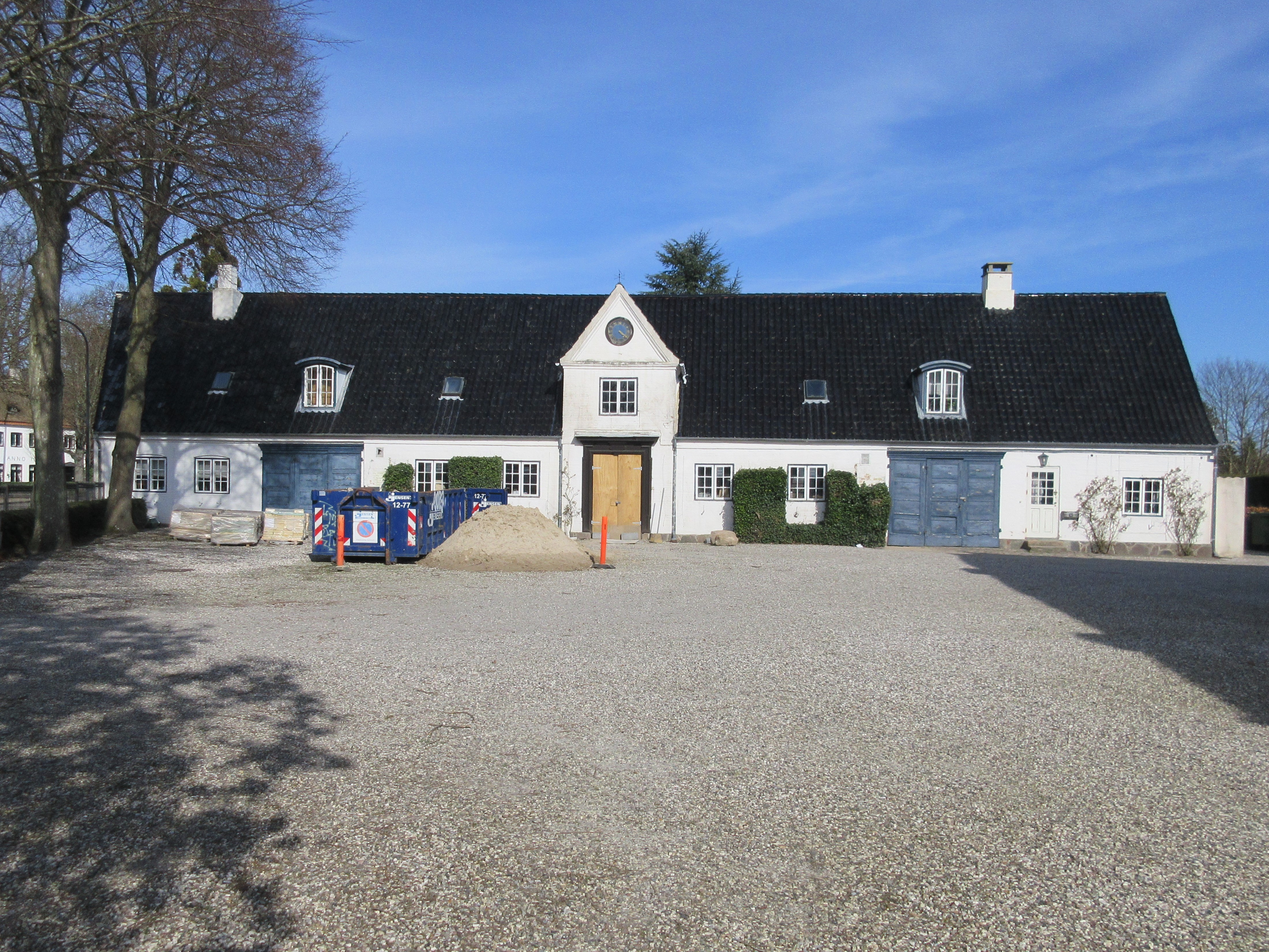 Carlsminde (Søllerød)